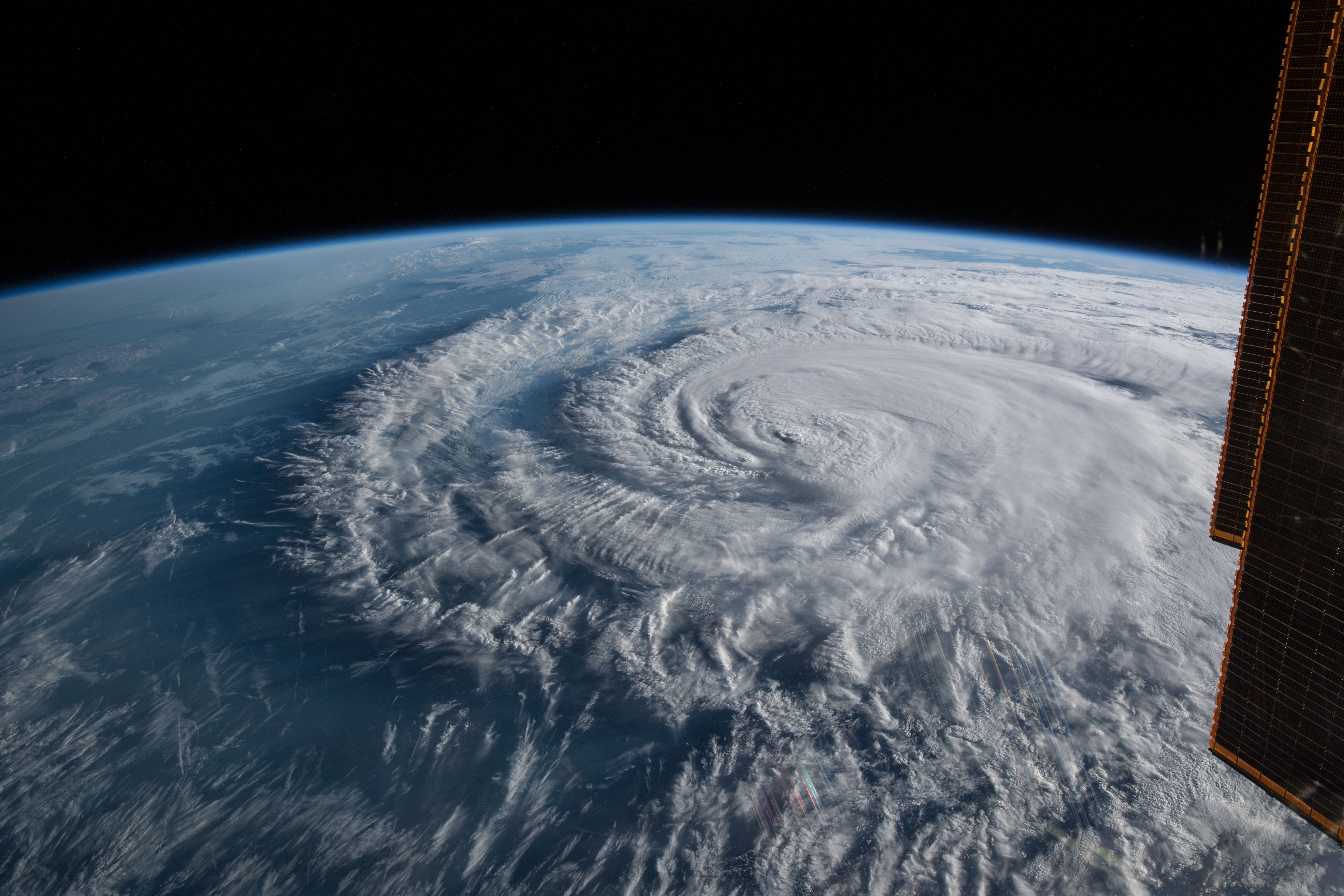 Hurricane Florence is pictured from the International Space Station as a category 1 storm as it was making landfall near Wrightsville Beach, North Carolina.